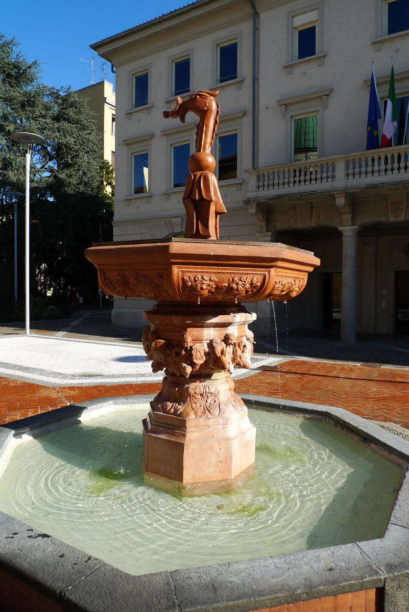 mangiabagai seregno